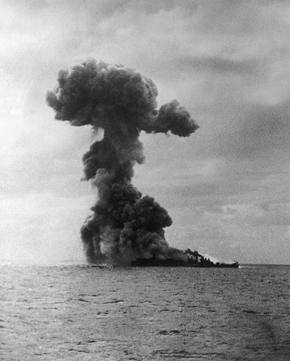 Heavy (second) explosion aft aboard the U.S. Navy light aircraft carrier USS Princeton (CVL-23), with the light cruiser USS Birmingham (CL-62) alongside, 24 October 1944.